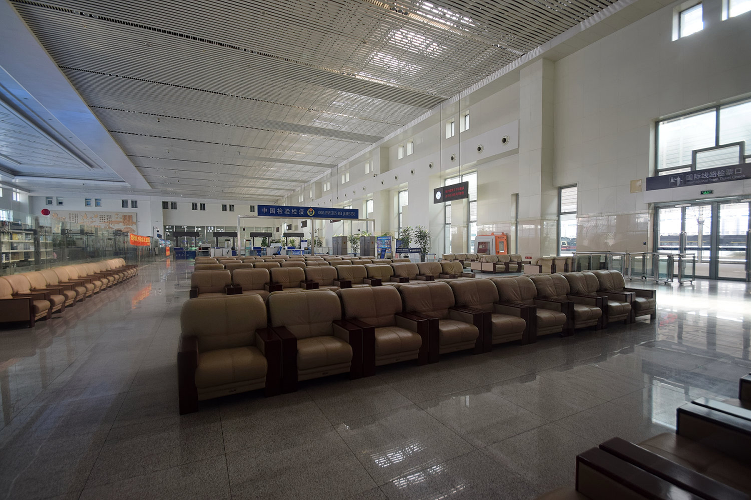 International Train Waiting Area & Dandong Railway Port at Second Floor of Dandong Railway Station